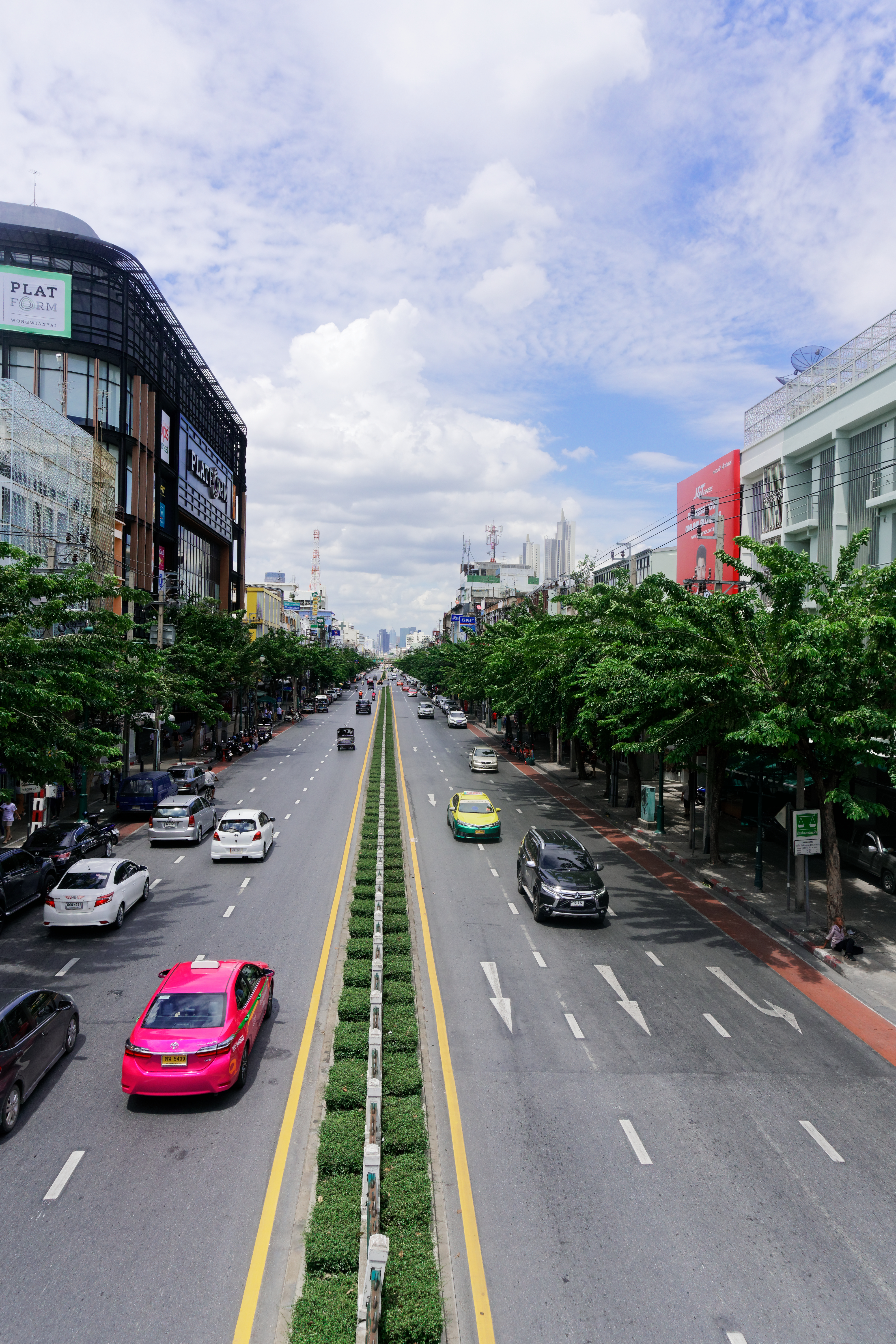 Lat Yaa rd. (View toward Klong San intersection) The image was shot at the pedestrian bridge near king Taksin's statue roundabout.